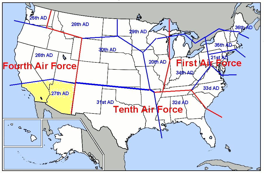 Map of USAF 27th Air Division (Air Defense Command), 1966